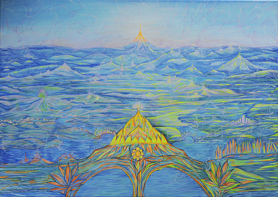 Painting by Lola Lonli. "New World. Sun City". 2013. Egg tempera with fluorescent pigments on canvas. 80 x 120 cm